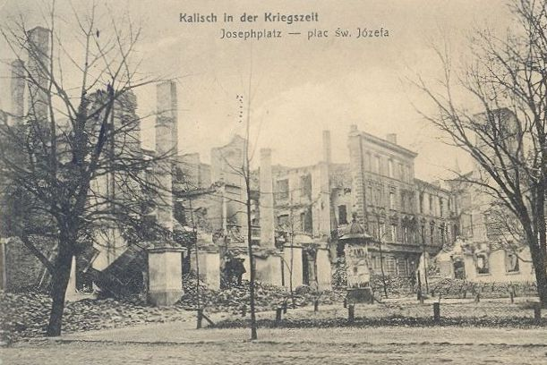 Kalisz, Poland, Leopold Wiess Palace, destroyed by Germans in 1914